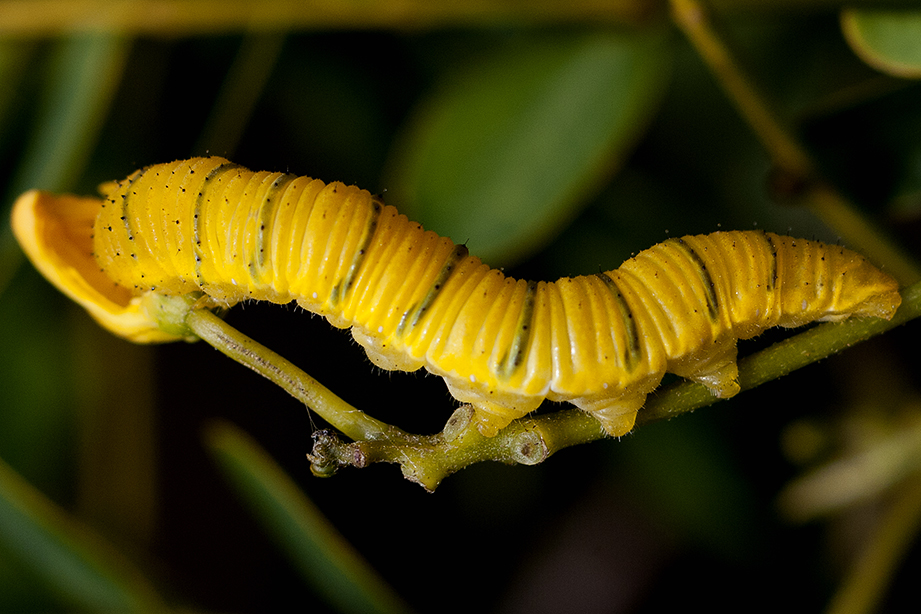 Cloudless sulphur catirpillar in situ on senna tree. Photographed in Vista, CA. November 20, 2011. by Andy Mansker.